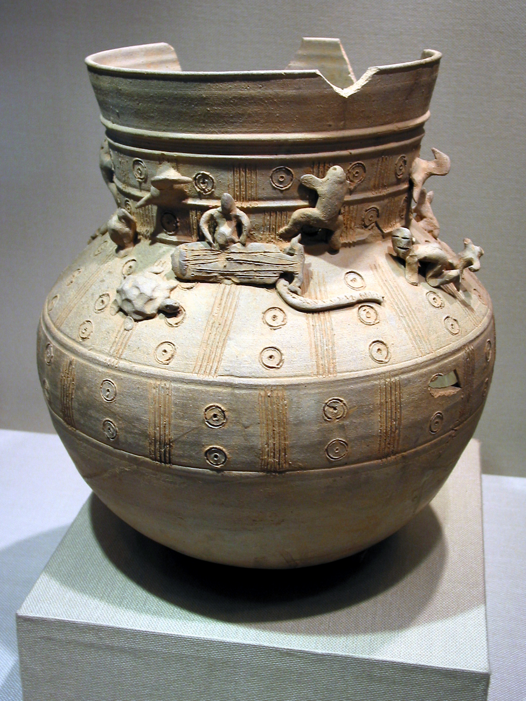 Jar with human and animal figurines. Silla kingdom, Early period, 5th century. Excavated from Gyerim-ro tomb, n°30. Stoneware, H. 34 cm. Gyeongju National Museum. National treasure 195. Reference : Soyoung Lee and Denise Patry Leidy et [al.], Silla : Korea's golden kingdom, Metropolitan Museum of Art and Yale University press, 2013, XV-219 p. (ISBN 978-1-588-39502-3 et 978-0-300-19702-0). p. 82-83.